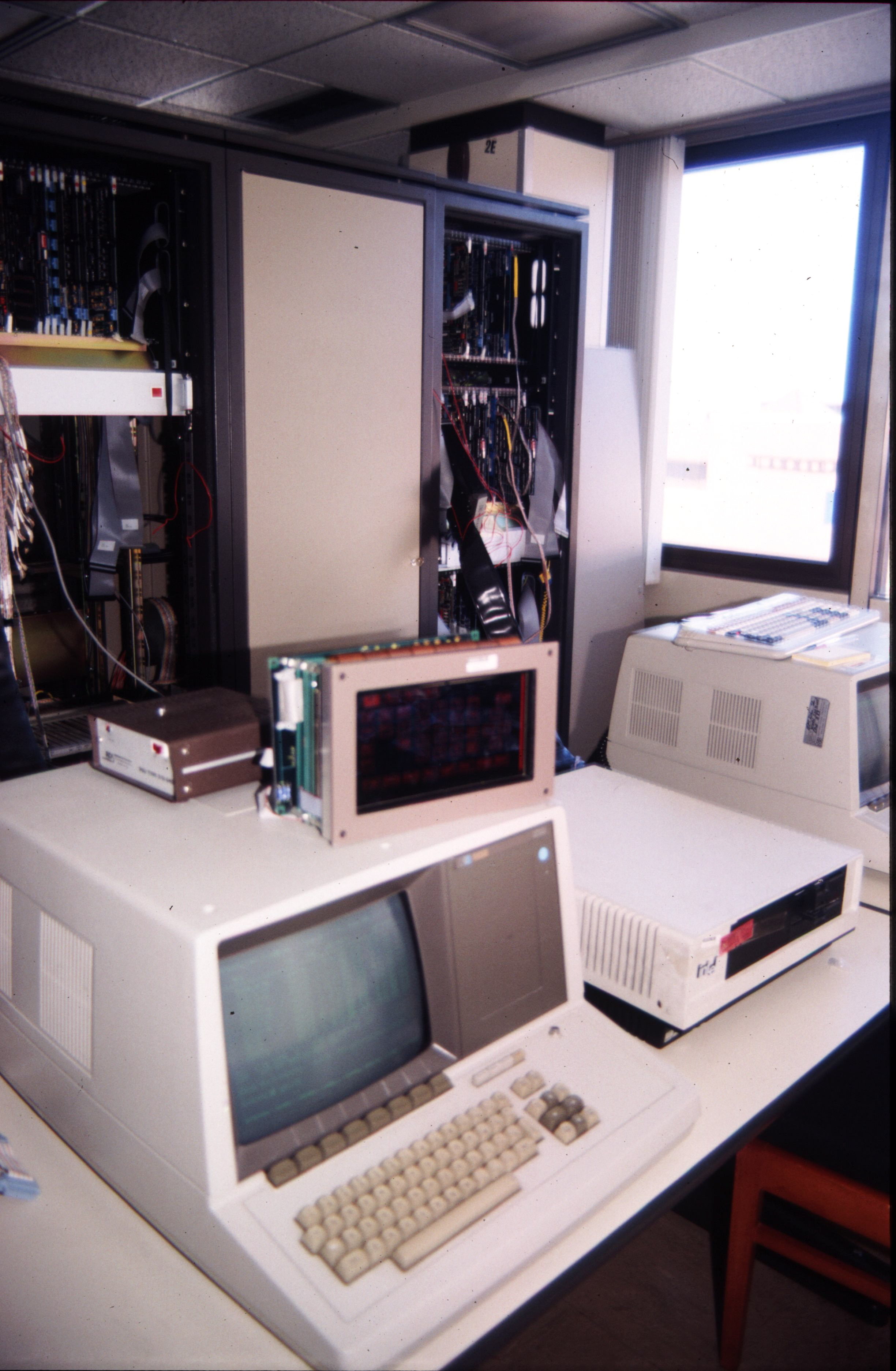 An HP64000 system at DataLogic in Harrow-on-the-Hill, United Kingdom. Picture taken in 1987. Mr. Downey itemises the equipment shown on Flickr.